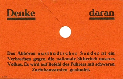 Paper tag attached to Volksempfänger devices in Nazi Germany. It reminds citizens that listening to enemy stations is punishable.